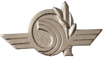 Old IDF Signal Corp, Battalion 414 Nesher, Pin that was given to the operators of the AN/PPS-5 Ground Surveillance Radar Set ("Keshet")